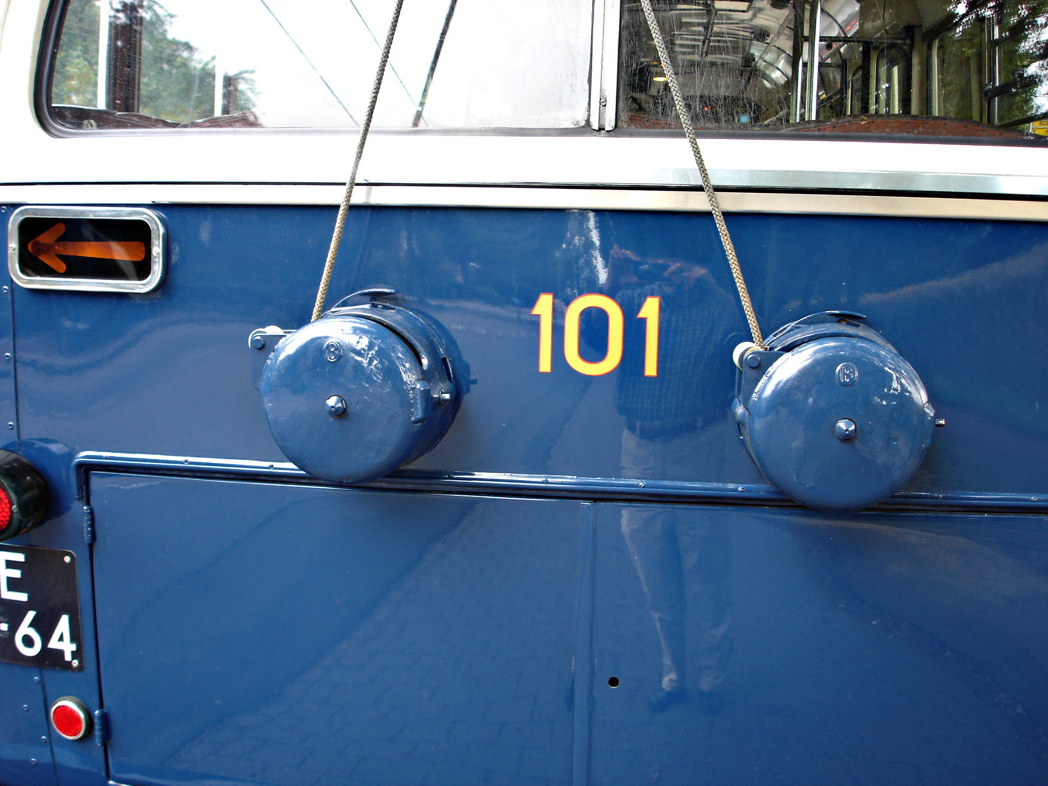 The trolley retrievers on the back of Arnhem trolleybus 101, a 1949-built BUT trolleybus that has been preserved.